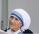 President Reagan presents Mother Teresa with the Medal of Freedom at a White House Ceremony, 1985